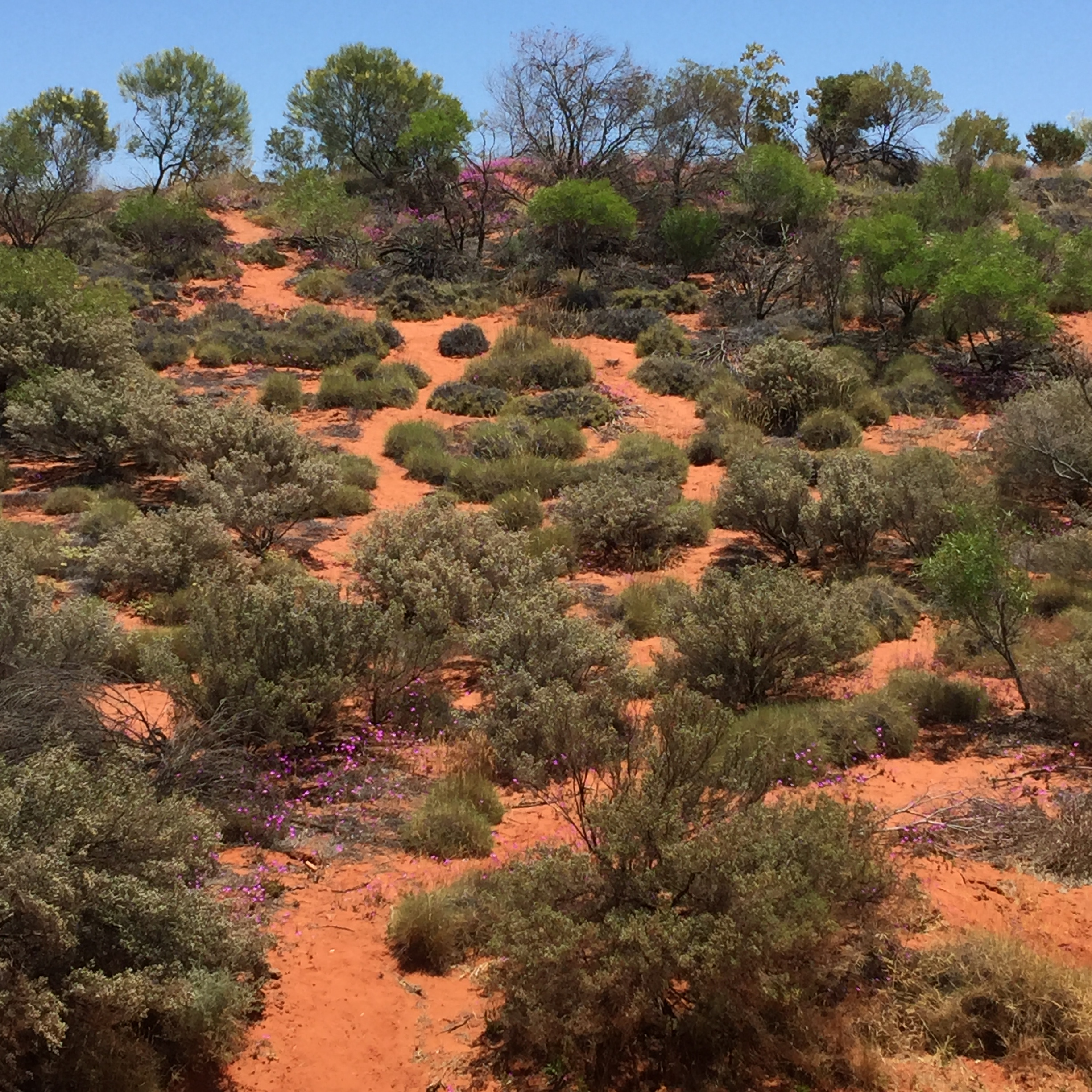 At Yulara in the Centre of Australia. The rain has come and the flowers are blooming.